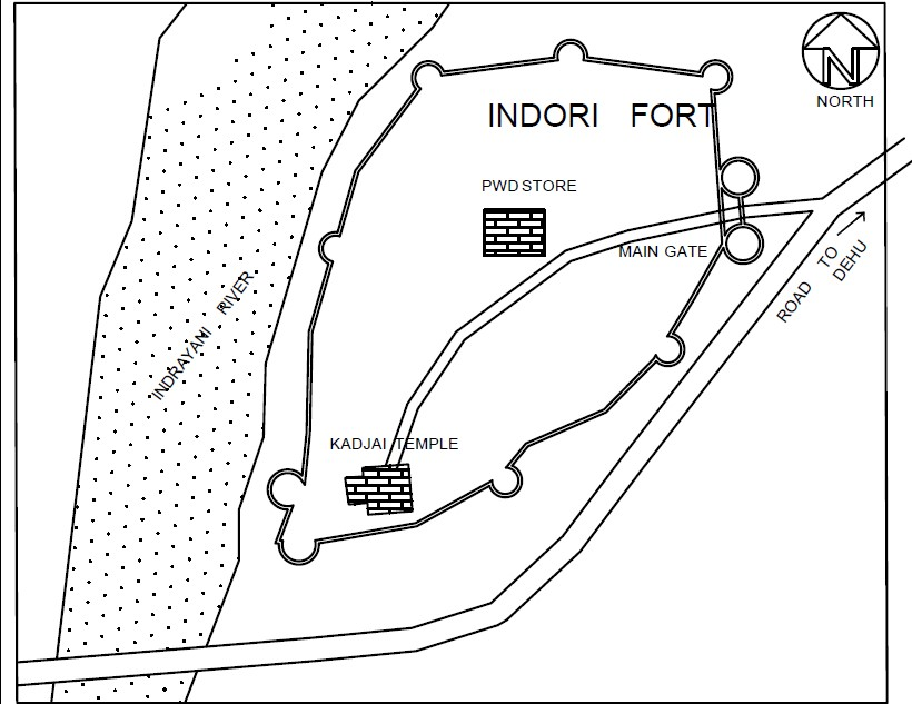 Outline sketch of the Indori fort